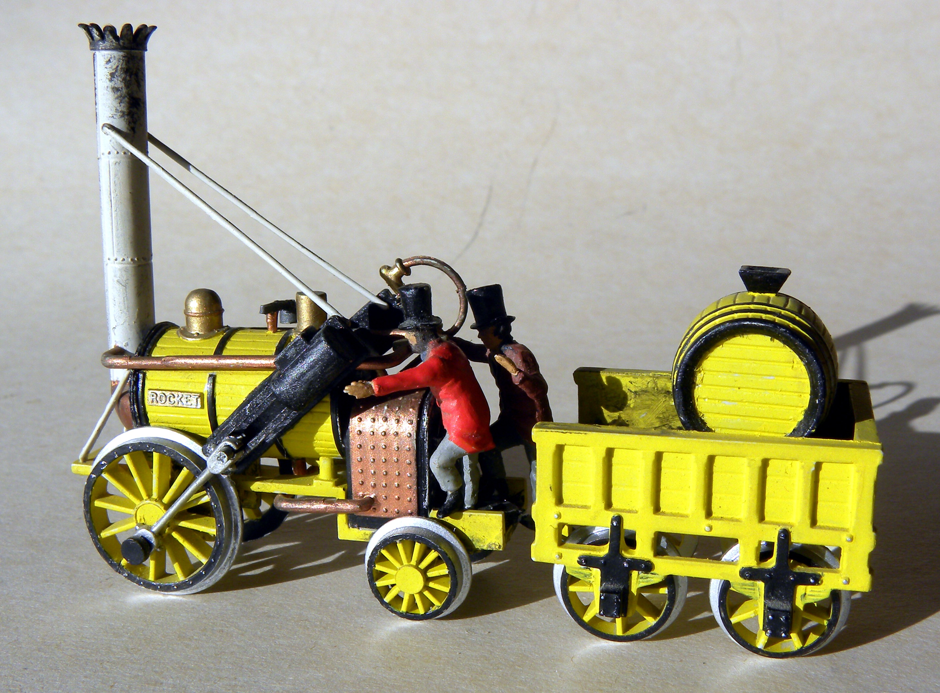 airfix stephenson's rocket used to be a Rosebud Kitmaster kit, than made by airfix from 1964 to 1979 later the kit moulds went to Dapol from which this one is build. the airfix kit was moulded in bright yellow plastic, the Dapol in grey